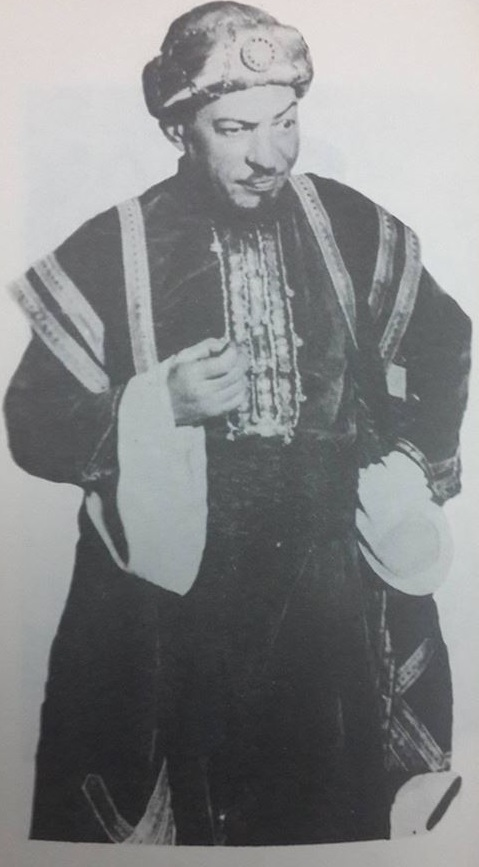 Naguib el-Rihani playing the role of "Bondoq" in "Hukum Qara qosh" (The rule of Qara qosh) play.